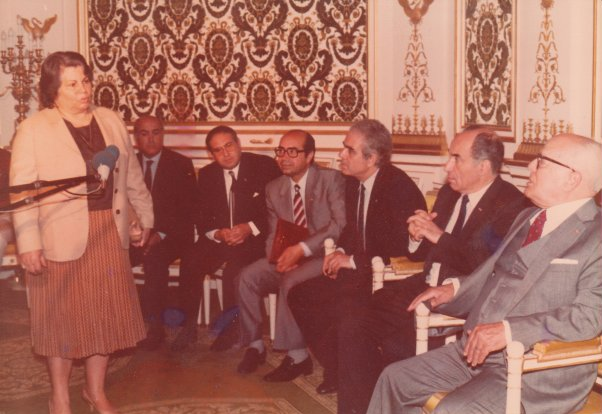 Late Tunisian president Habib Bourguiba with former former prime minister Mohamed Mzali (from right) and former minister Fathia Mzali